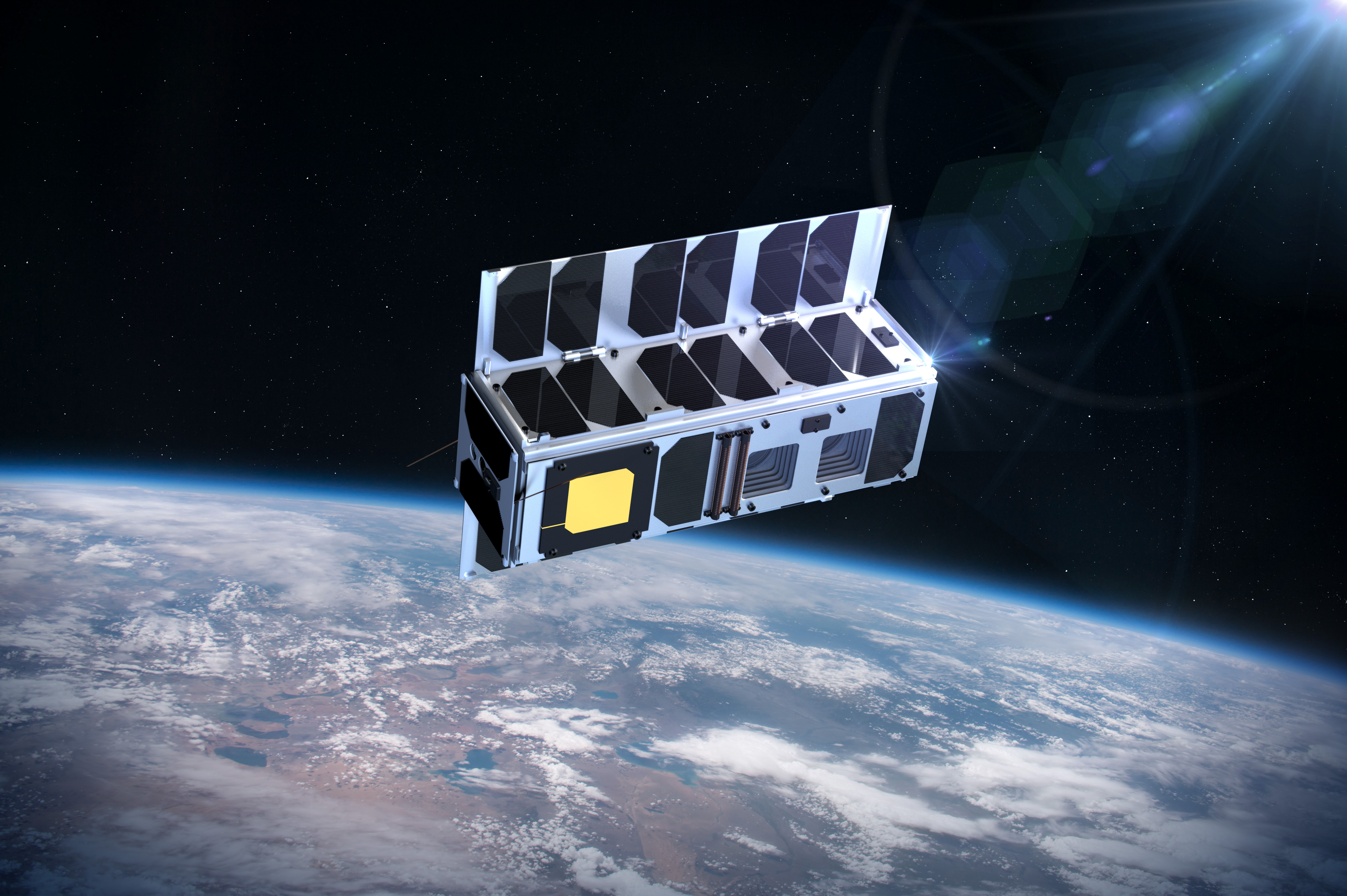 ESTCube-2 artist impression by Taavi Torim